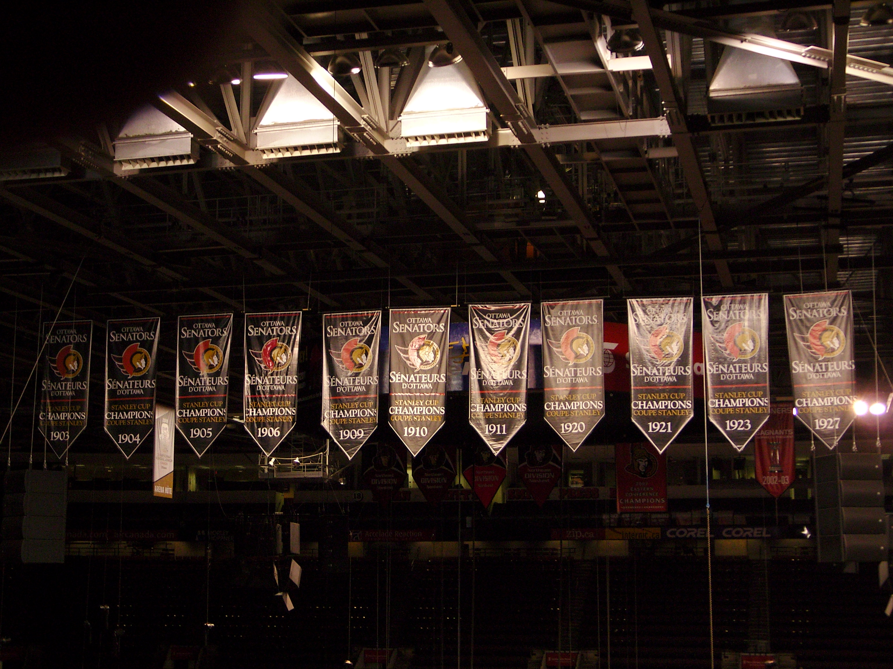 Banners hung at the Canadian Tire Centre to commemorate 1903-1927 Stanley Cup wins.